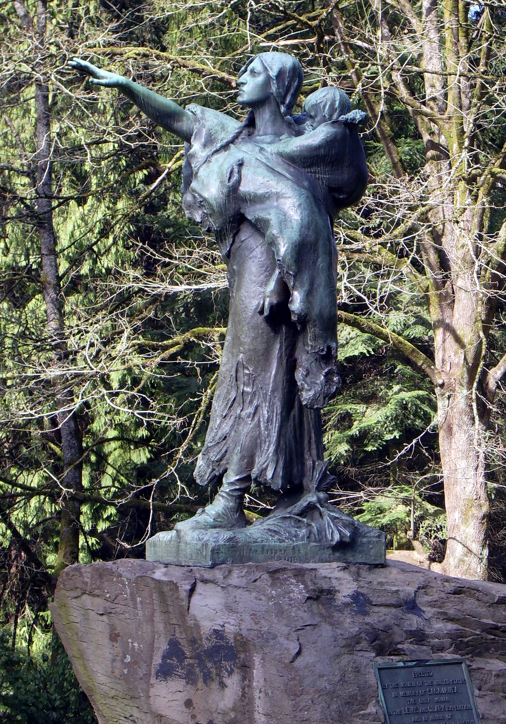 Statue of Sacajawea in Washington Park, viewed from the south. It was sculpted by Alice Cooper from Denver, Colorado and unveiled in 1905 at the Lewis & Clark Centennial Exposition. It depicts Sacajawea pointing the way westward. See also Eva Emery Dye.